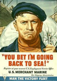 US Merchant Marine Poster from WWII